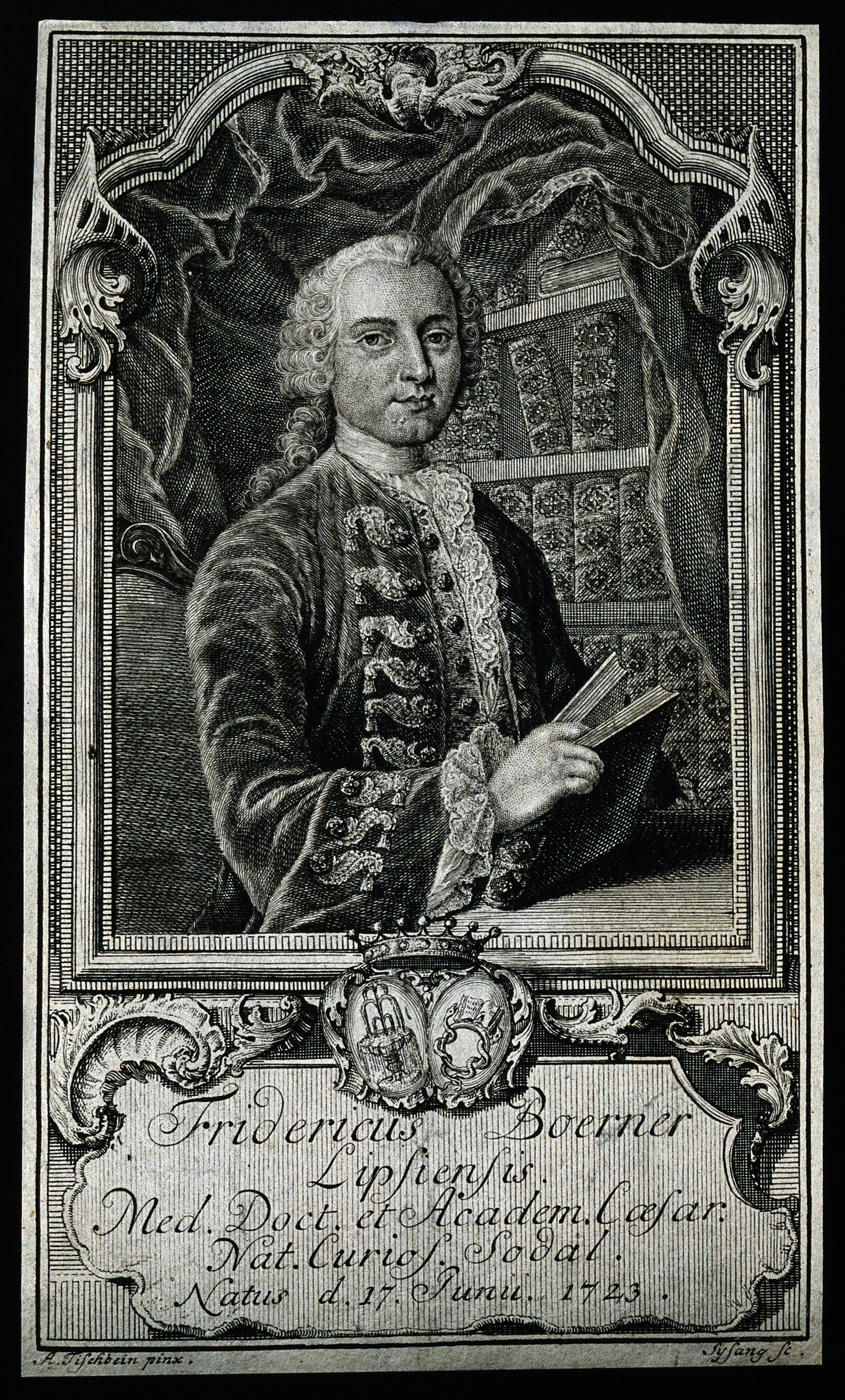 Friedrich Boerner. Line engraving by J. C. Sysang after A. Tischbein. Iconographic Collections Keywords: J. C. Sysang; engravings; boerner, friedrich, 1723-1761; portrait prints; A. Tischbein; Friedrich Boerner